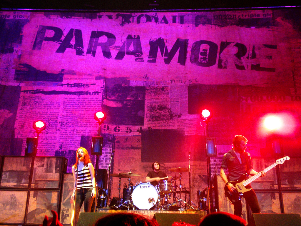 Paramore opening for No Doubt @ General Motors Place in Vancouver, BC. 7/18/2009